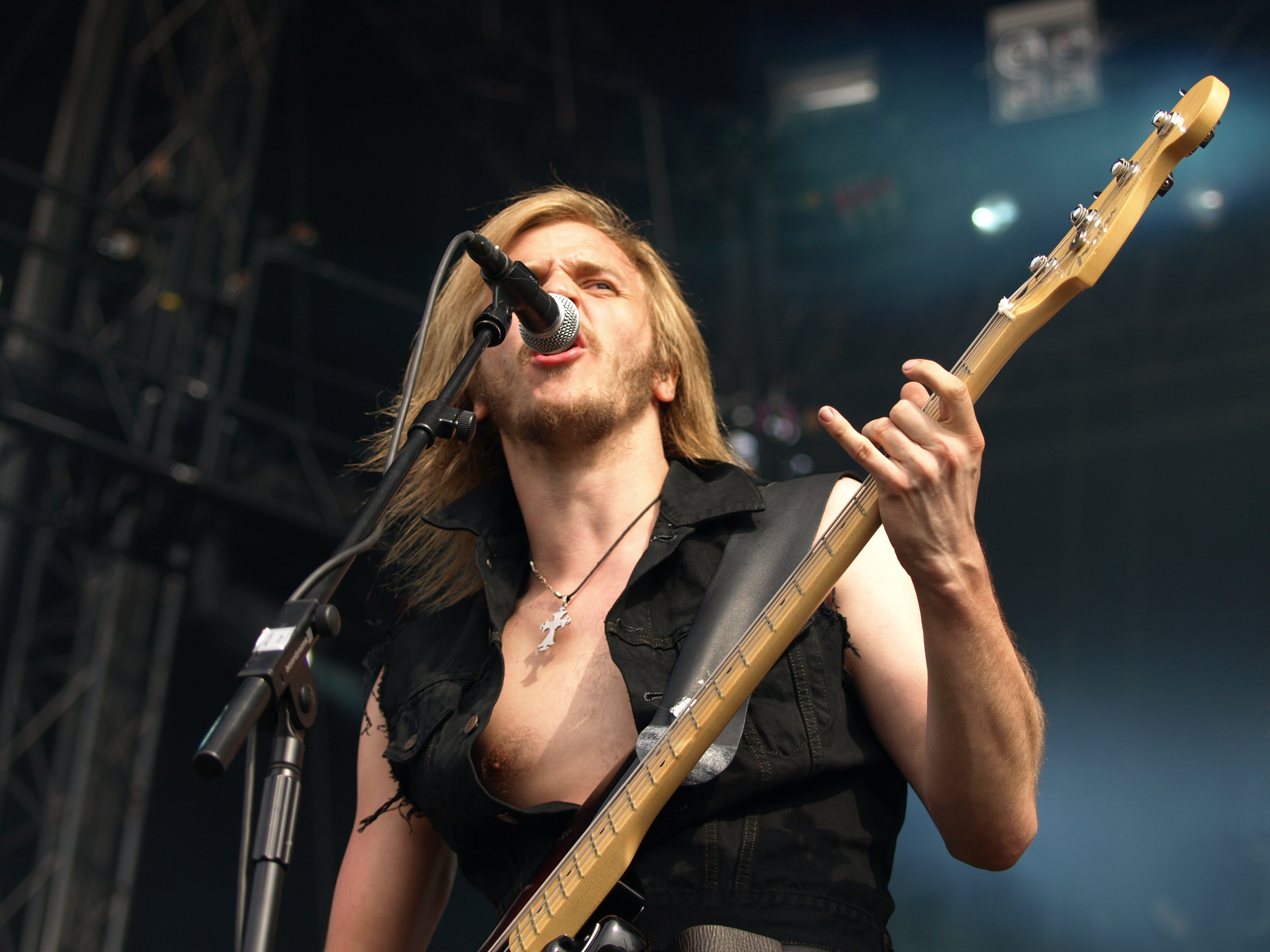 Finnish band Battle Beast at Tuska Open Air 2013